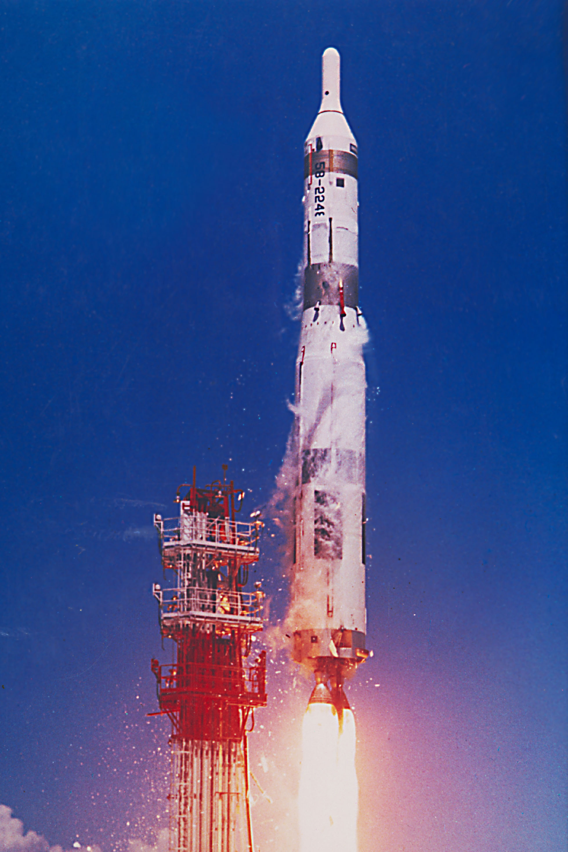 Titan I missile J-7 begins the first successful flight test of an operational Titan I ICBM on 10 August 1960 at the Atlantic Missile Range.